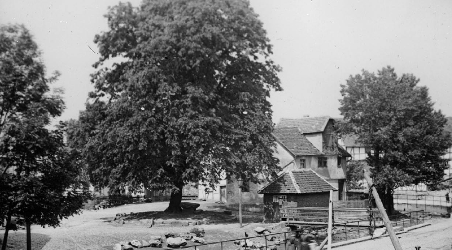 The lime tree of Vollmarshausen, Lohfelden